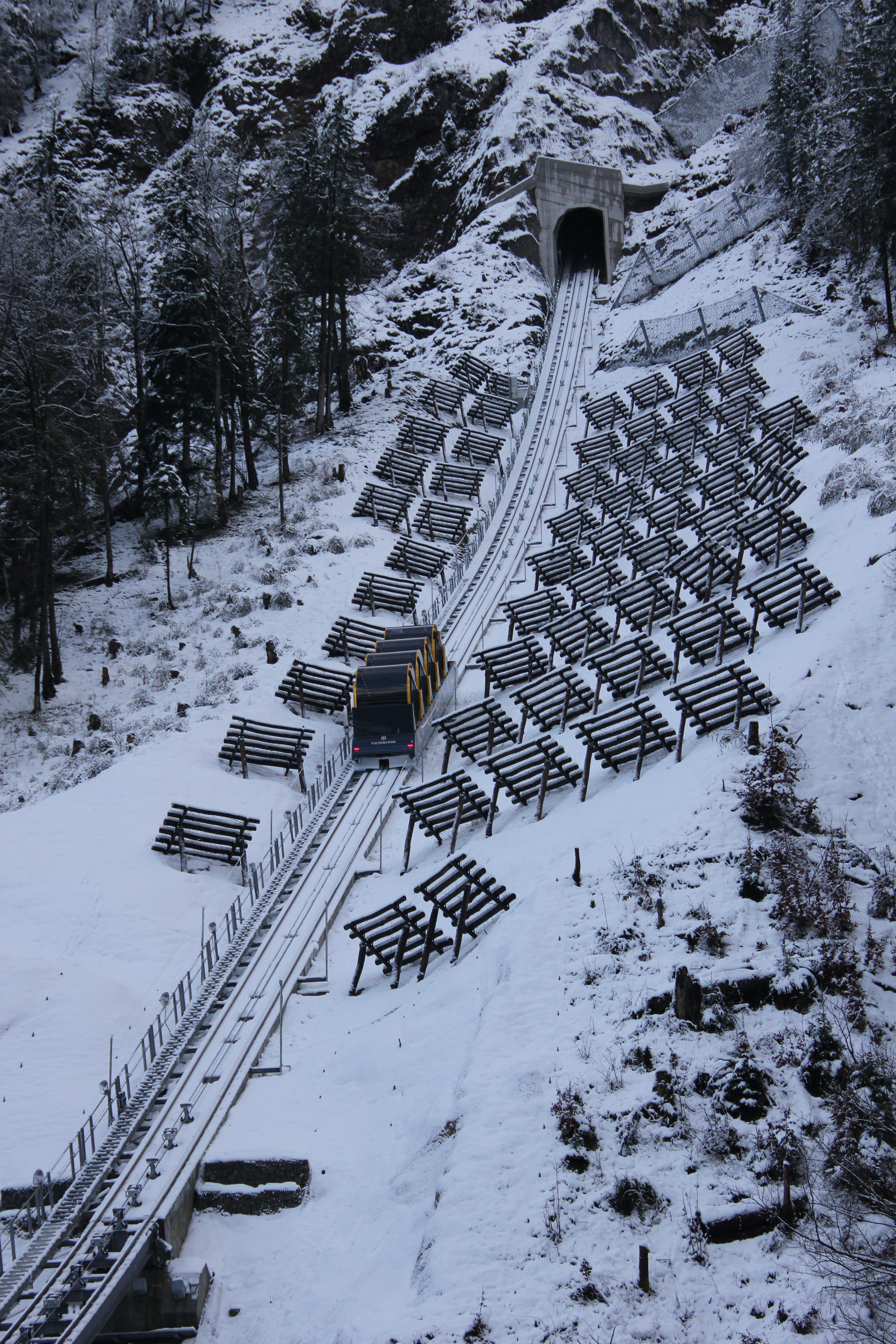 Photo of steep funicular railway up to village Stoos (Switzerland), winter 2017-2018 in Europe with snow.